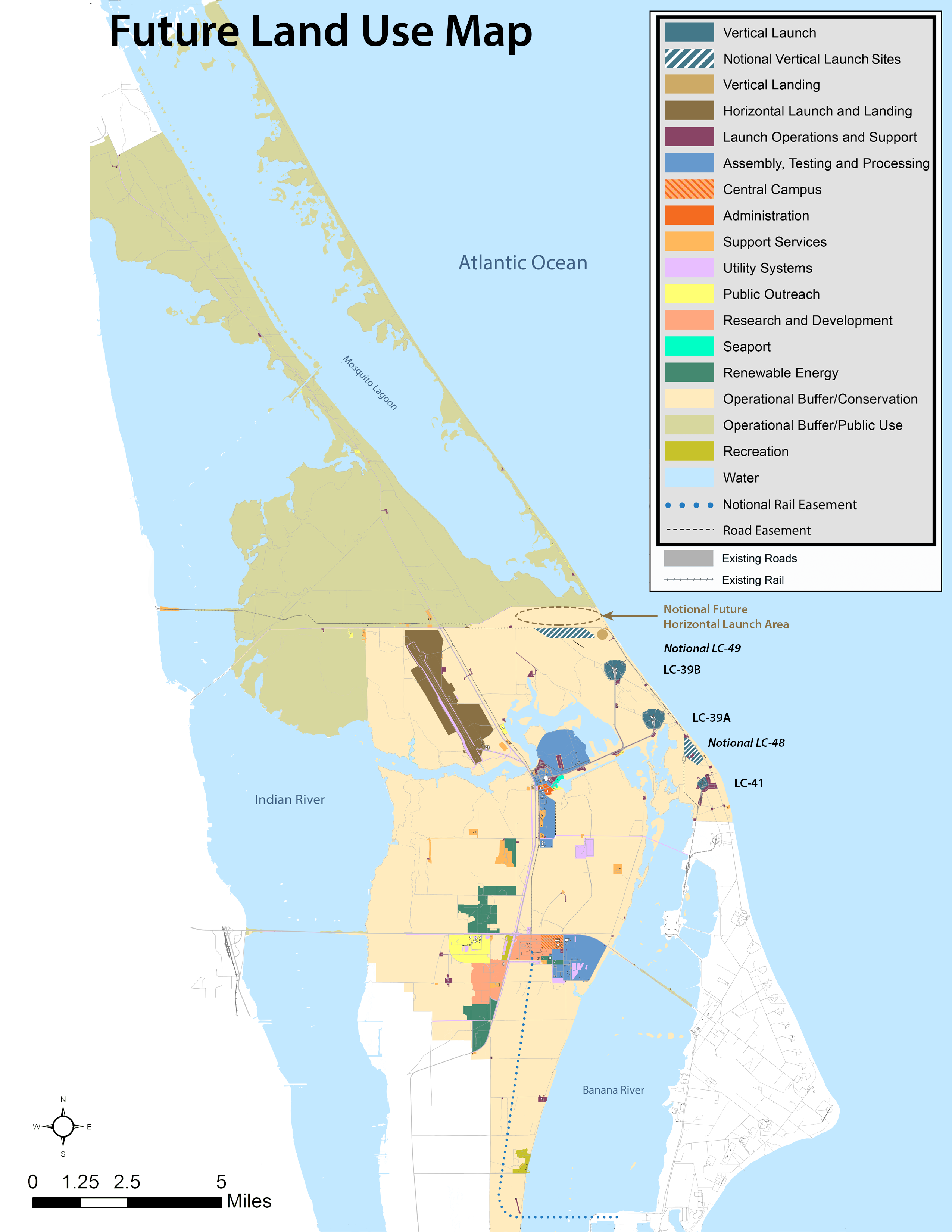 A Kennedy Space Center map shows the current and future buildings, as proposed by NASA.